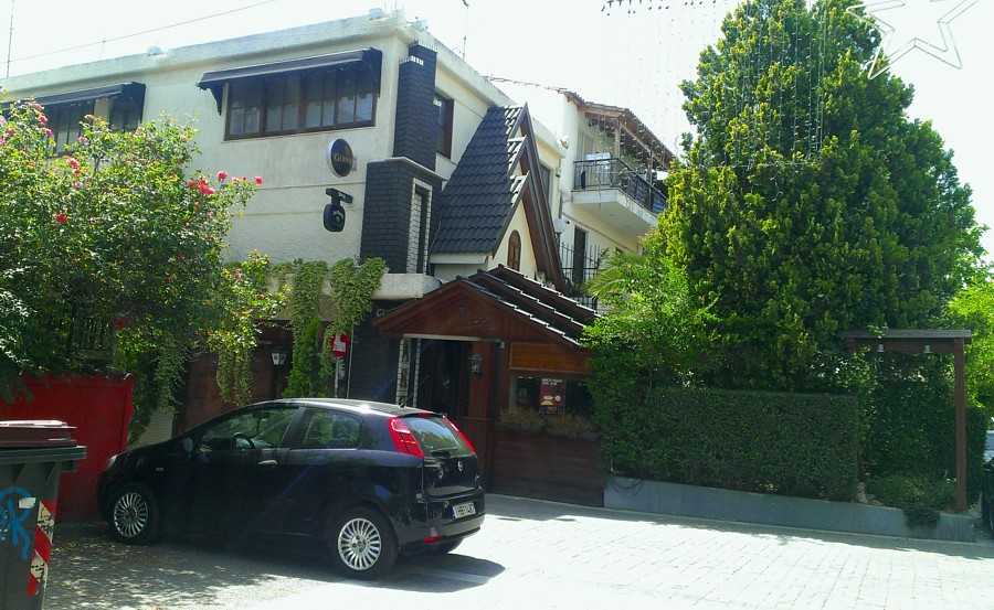 peristeri